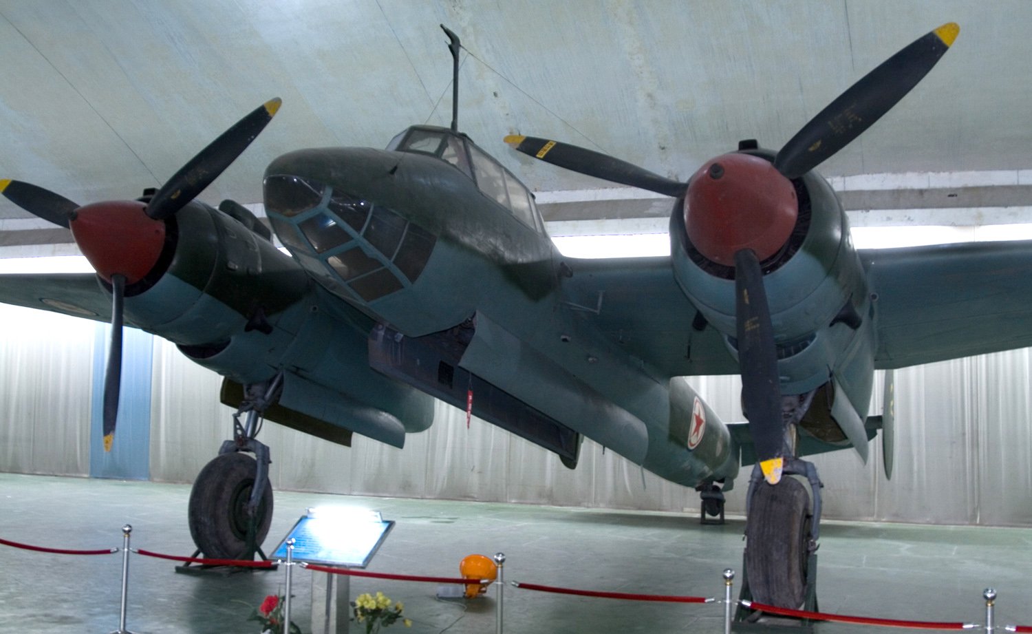 A Tu-2 bomber at the China Aviation Museum